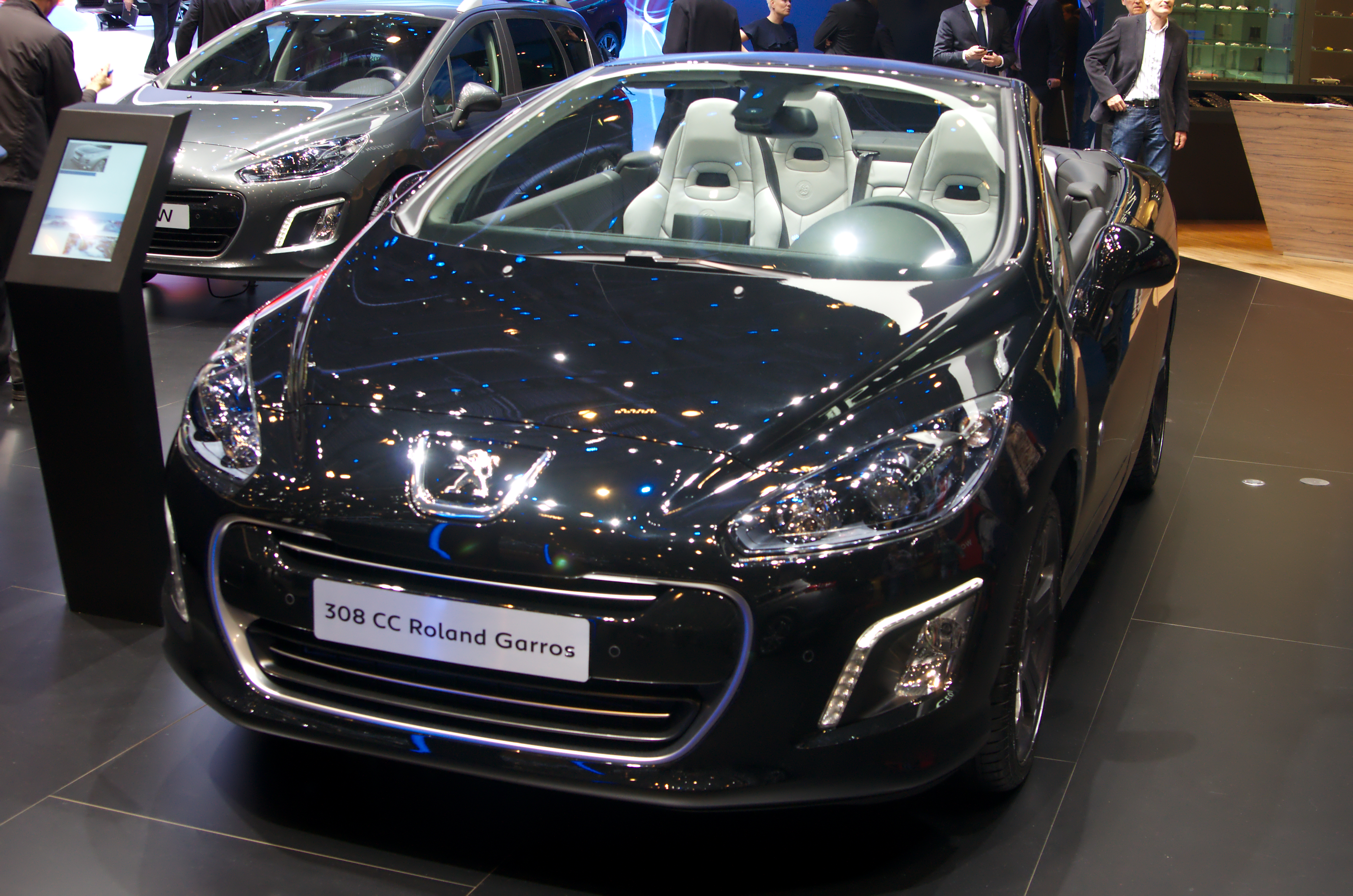 Geneva MotorShow 2013 - Peugeot 308 CC Roland Garros